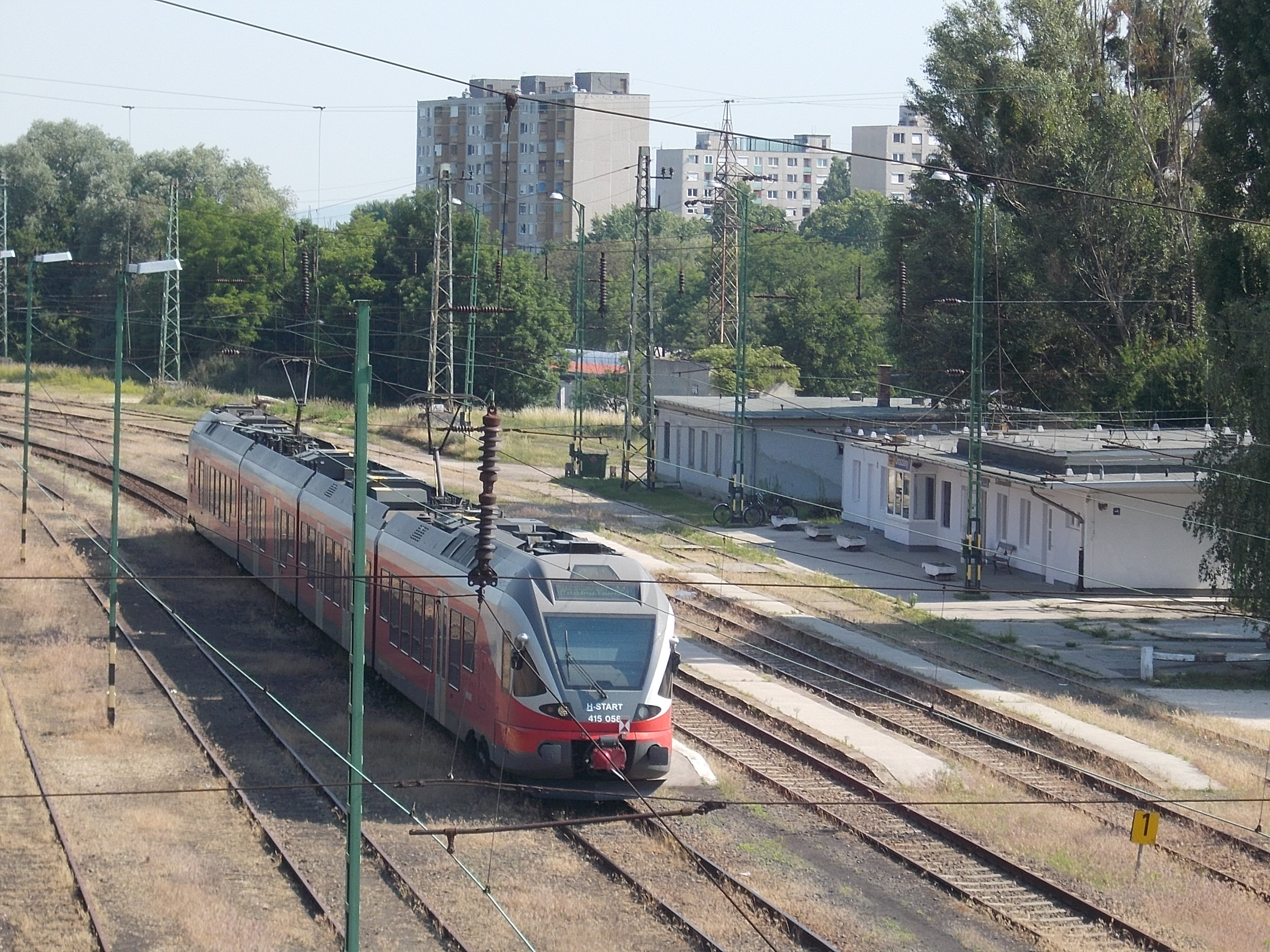 View from the pedestrian overpass at Oroszlány railway station toward railway station building and MÁV 5341 - Oroszlány, Komárom-Esztergom County.